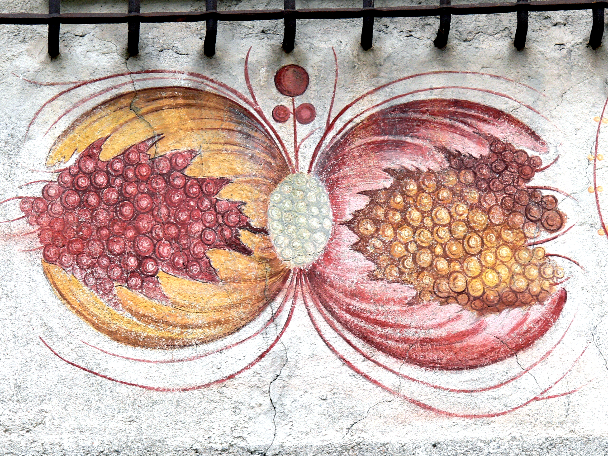 Innichen ( South Tyrol ). Museum and archives of the monastery: Window with decorative frescos ( 1550s ) - detail: Pomegranates